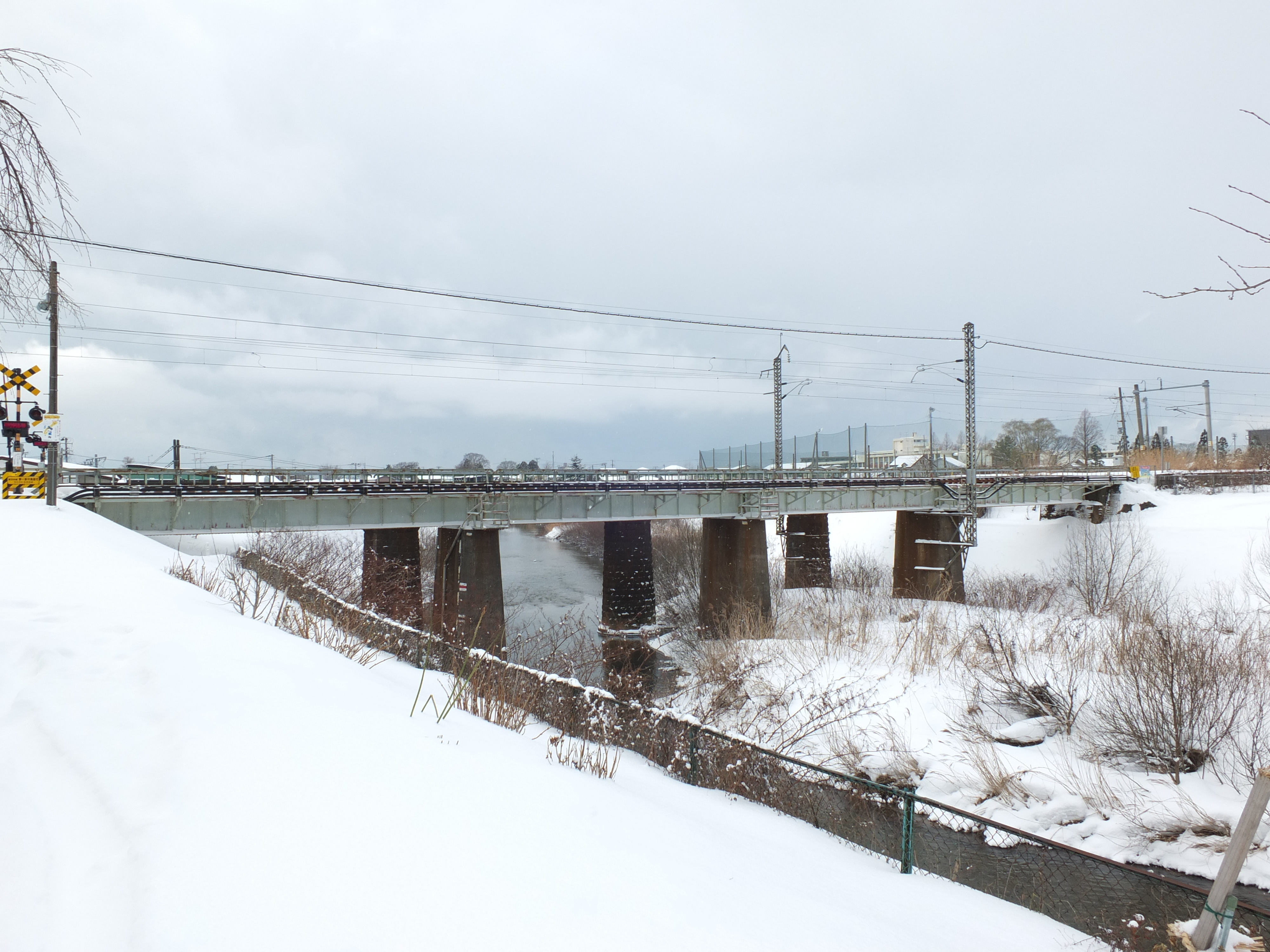 Asahikawa kyouryou (bridge) on Asahi-kawa (river) via Ouu main line at Akita city, Akita prefecture, Japan.